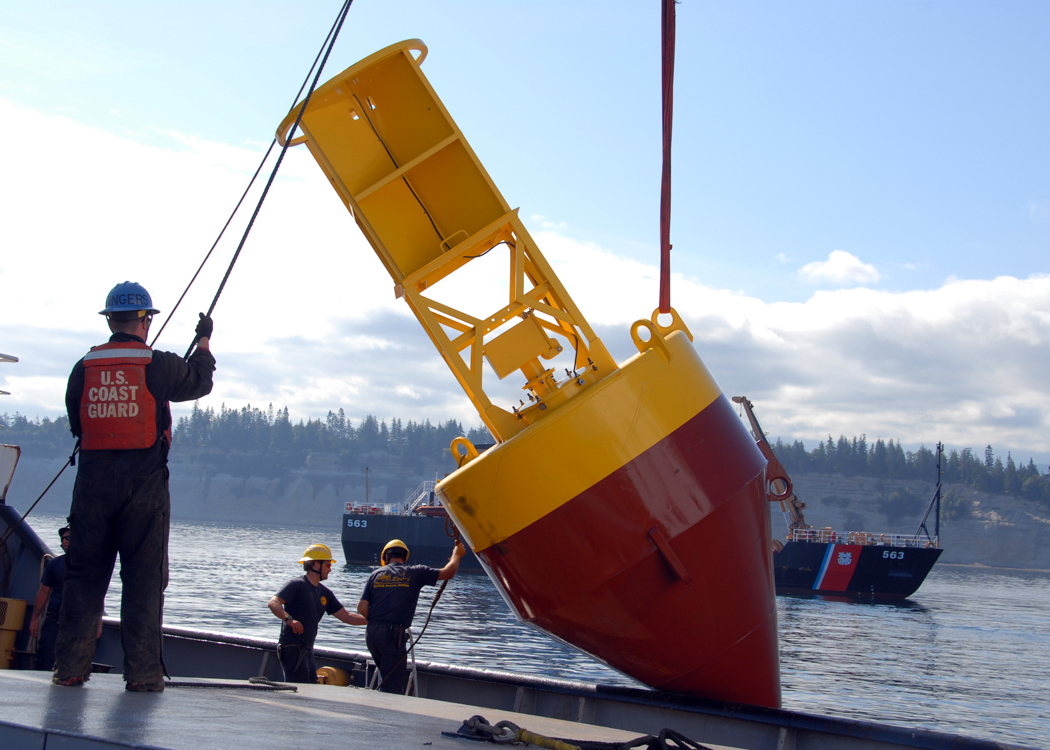 Cutters CCGC Provo Wallis and USCGC Henry Blake tend buoys. Original caption: "A U.S. Coast Guard crew member from the cutter Henry Blake, homeported in Everett, Wash., assists the crew of the Canadian Coast Guard buoy tender Provo Wallis, homeported in Victoria, British Columbia, with the placing of a buoy in the water, Aug. 25, as part of the North Pacific Coast Guard Forum Exercise. The purpose of the forum is to foster relationships between the participating nations of Canada, China, Japan, South Korea, Russia and the United States." Virin = 090826-O-9999X-001